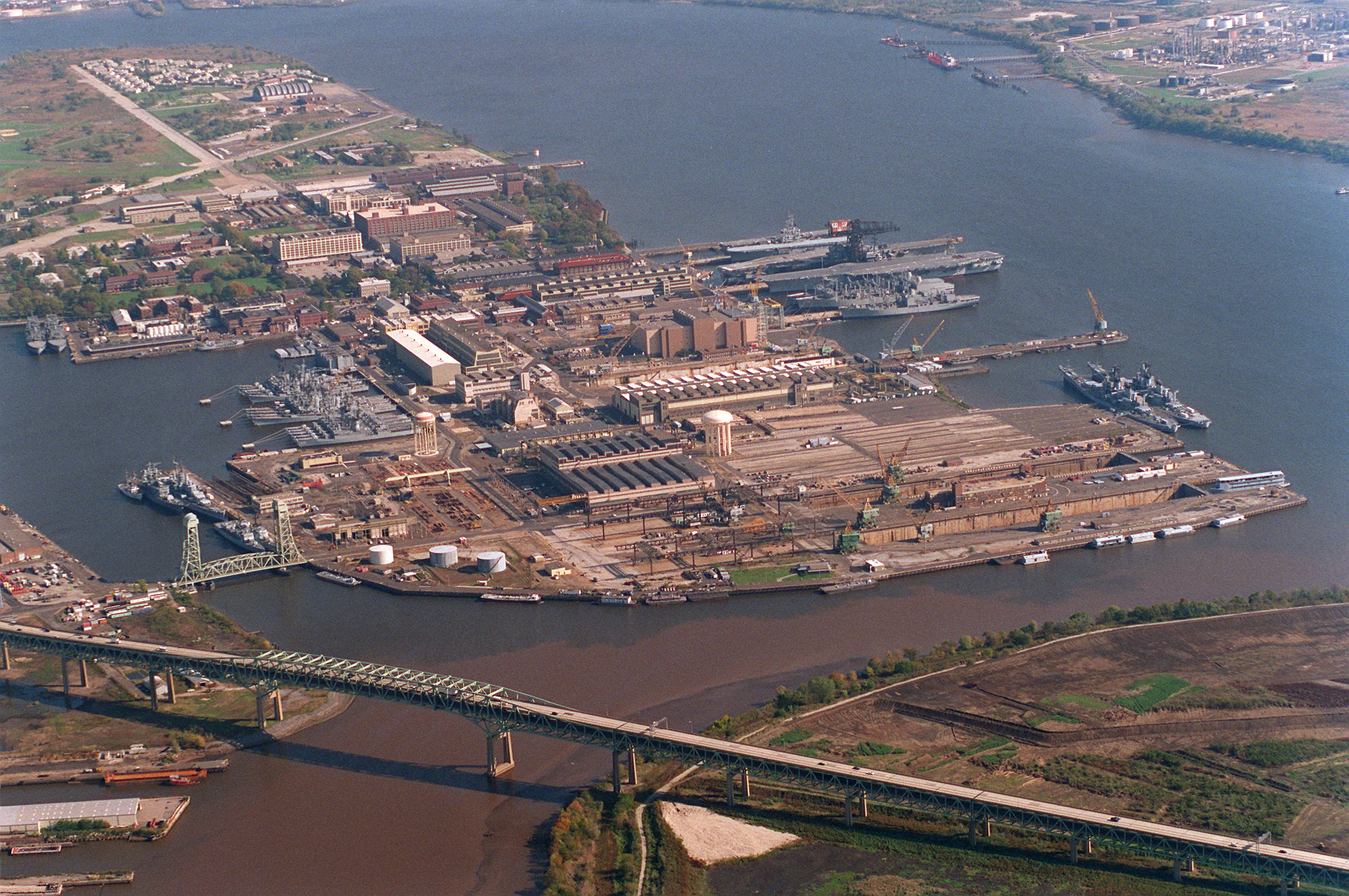 An aerial view of the U.S. Navy Philadelphia Naval Shipyard looking south, showing many vessels moored in the Navy Intermediate Ship Maintenance Facility. The shipyard closed on 30 September 1995, but the NISMF continued to store decommissioned and mothballed ships. The mothballed ships shown here: USS Iowa (BB-61) and USS Wisconsin (BB-64); the heavy cruiser USS Des Moines (CA-134); the aircraft carriers USS Forrestal (CV-59), and USS Saratoga (CV-60); two helicopter carriers (LPH), two Wichita-class replenishment oliers (AOR); two ammunition ships (AE); four guided missile cruisers (CG); two landing dock ships (LPD); and numerous destroyers, guided missile destroyers and frigates.